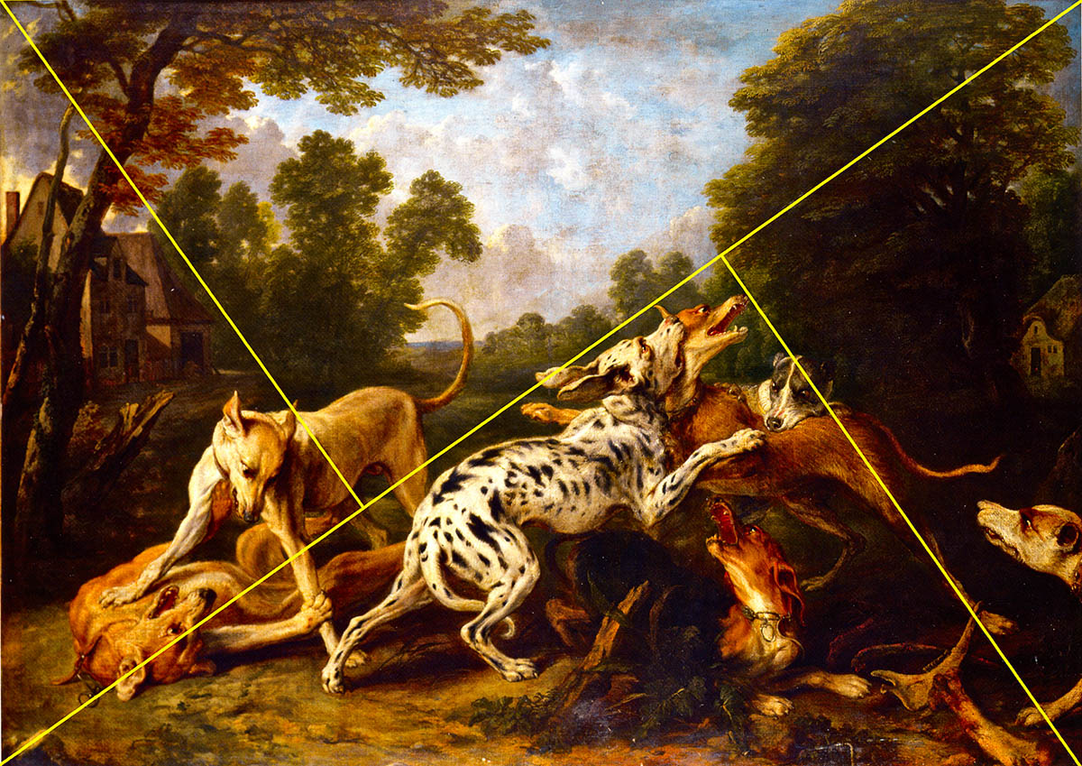 Demonstration of "Golden Triangle" composition method using Franz Snyder's fighting dogs The superimposed yellow line shows triangles.